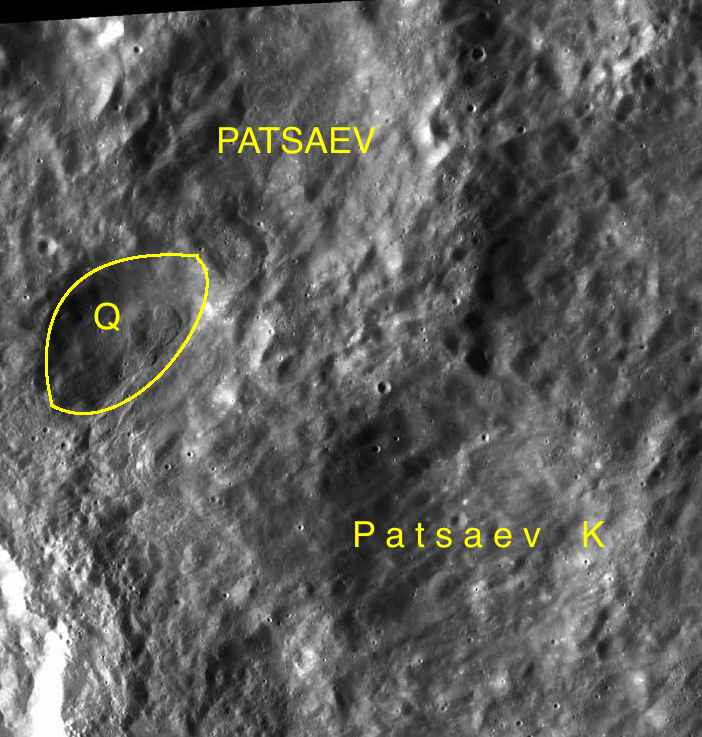 Part of the chart LAC-102 used for the presentation